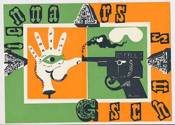 Künstlerhaus Archiv_Herbert Pass Einladung zu den Festen 1965_(Künstlerhaus Archiv) © Künstlerhaus Archiv